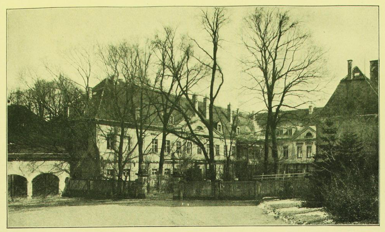 Castle Weistropp, Weistropp, Saxony, Germany